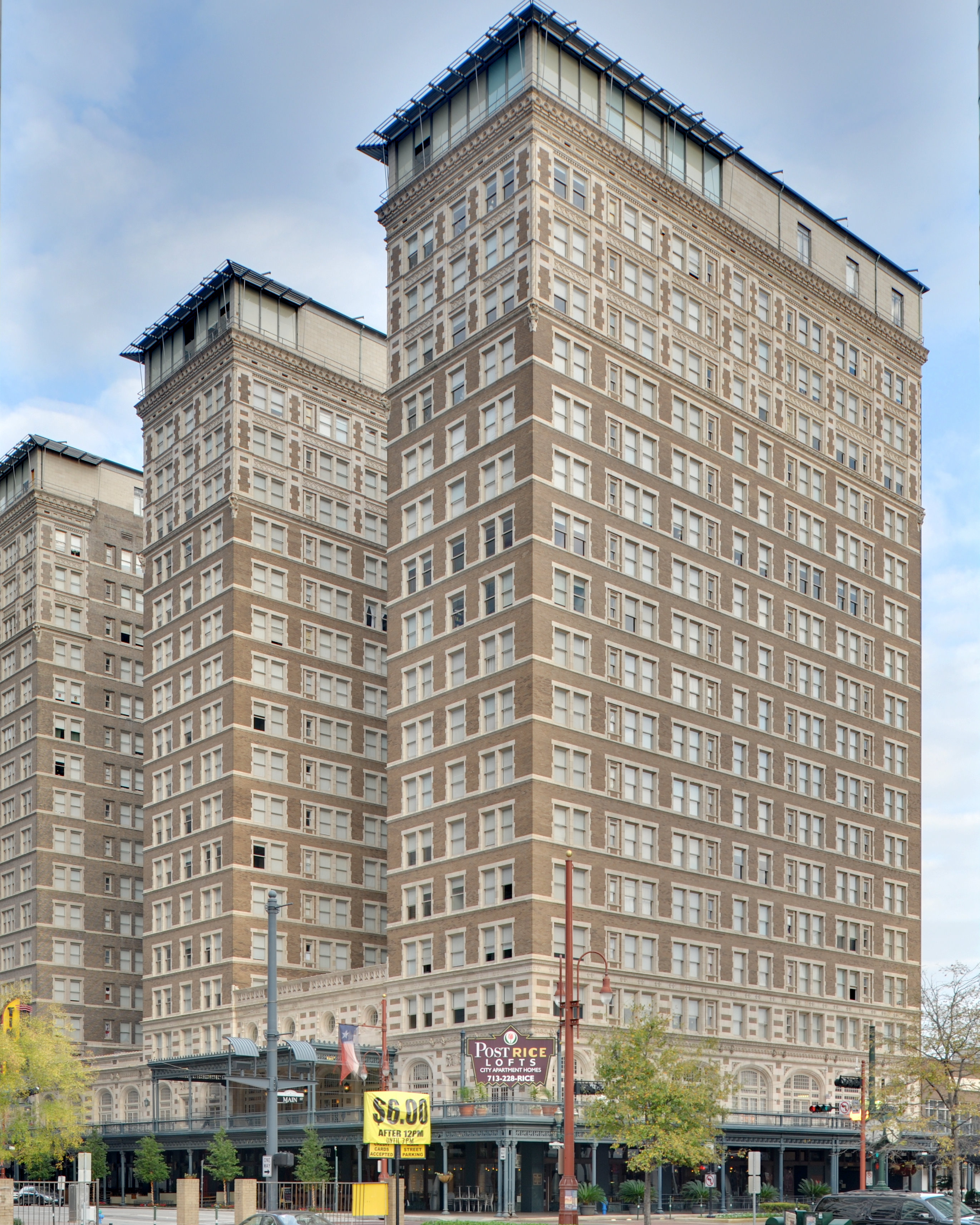 Rice Hotel, on the corner of Main and Texas Streets, Houston (Texas, USA) is listed in the National Register of Historic Places, United States Department of the Interior.